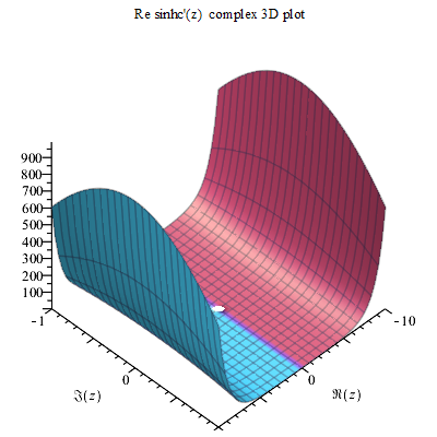 Sinhc'(z) Re complex 3D plot